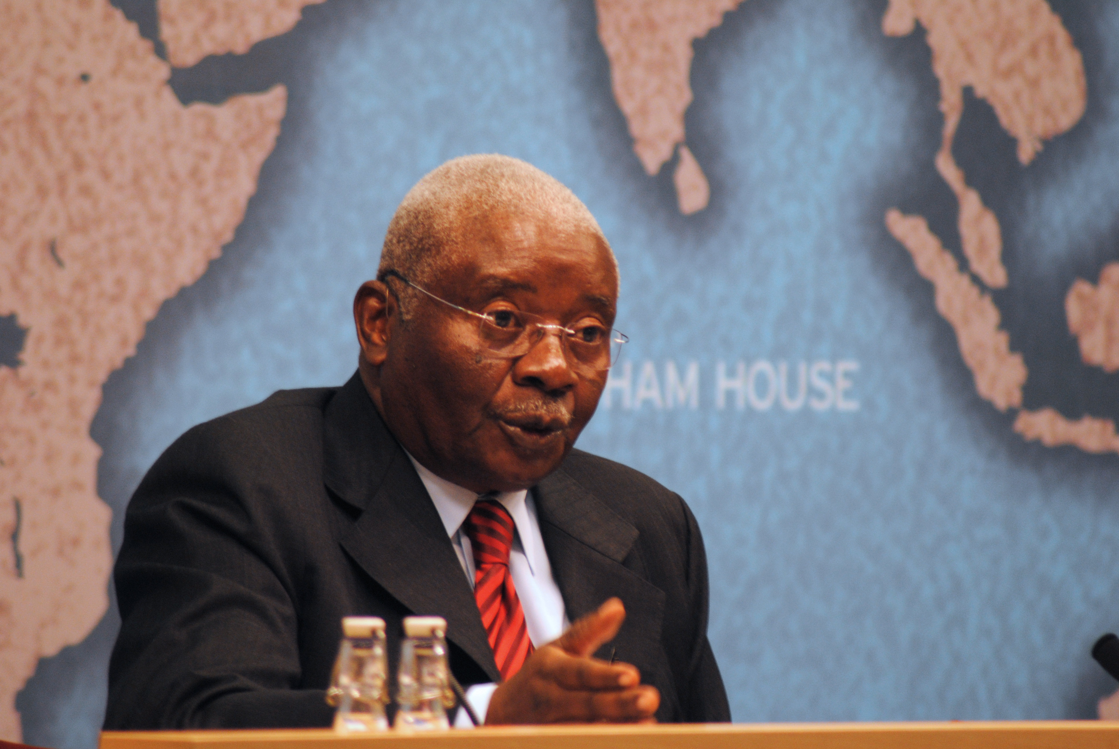 Harnessing Mozambique’s Mineral Wealth, Wednesday 9 May 2012